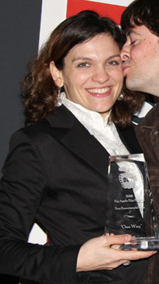 Flo Ankah receiving Best Experimental Film for ONE WAY - this picture was taken at the Tribeca Cinemas in New York City, while attending the 5th Big Apple Film Festival